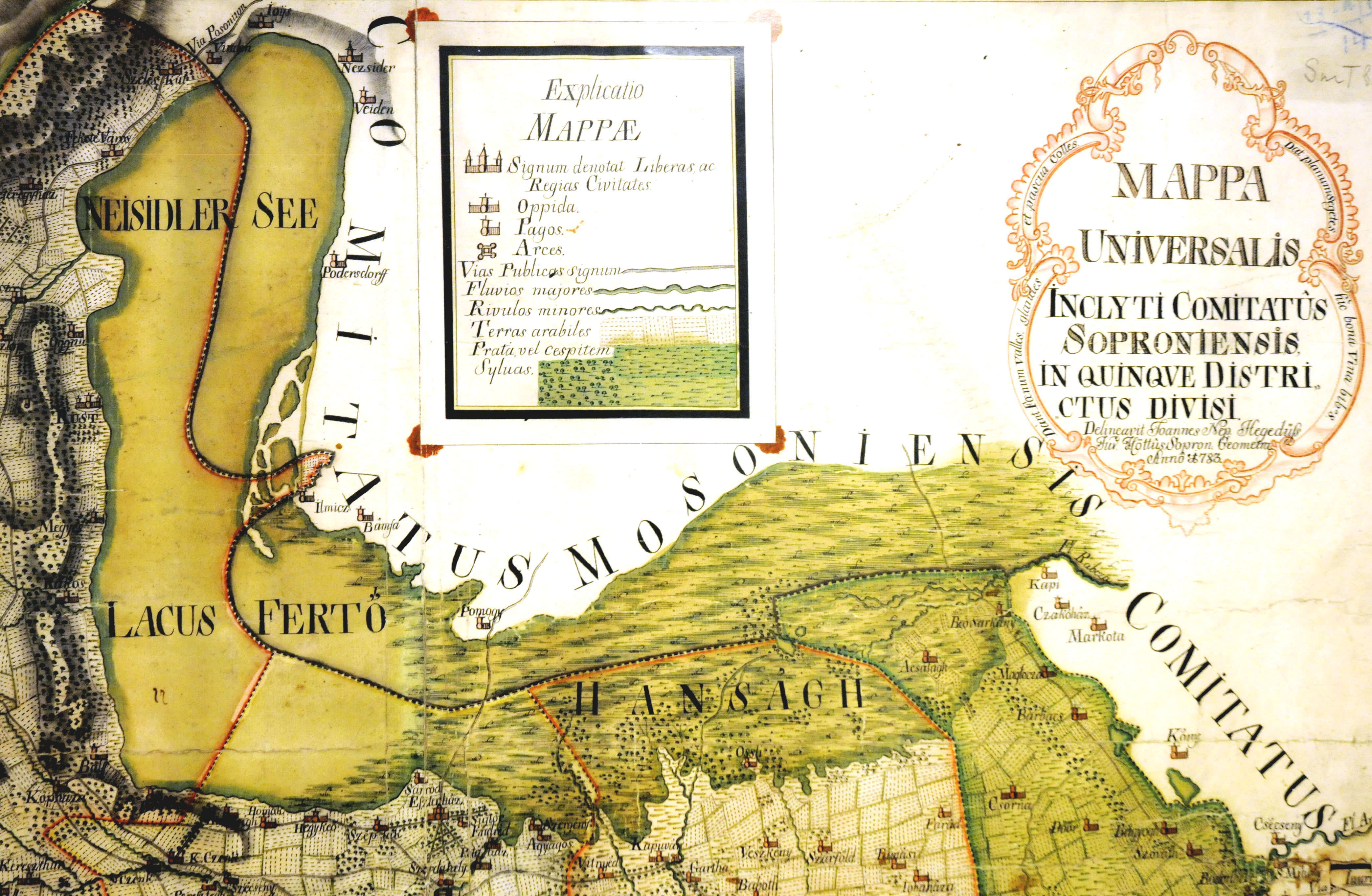 Map by Johannes Hegedüs showing Lake Neusiedl, contiguous with the extensive Hanság swamp extending eastward from the southern end of the lake